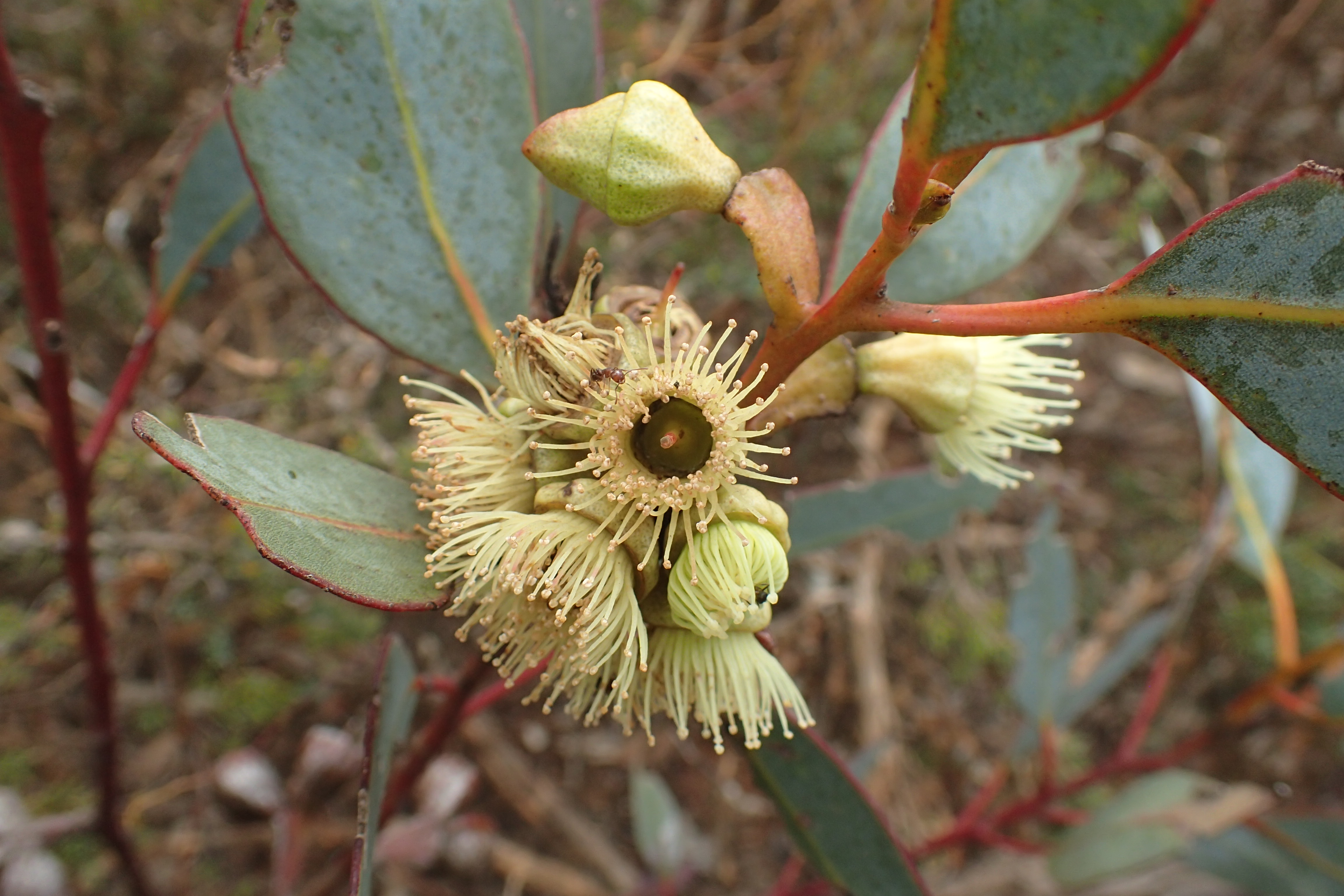 Flowers of Eucalyptus kessellii subsp. kessellii in the Mount Burdett Nature Reserve, north east of Esperance, W.A.